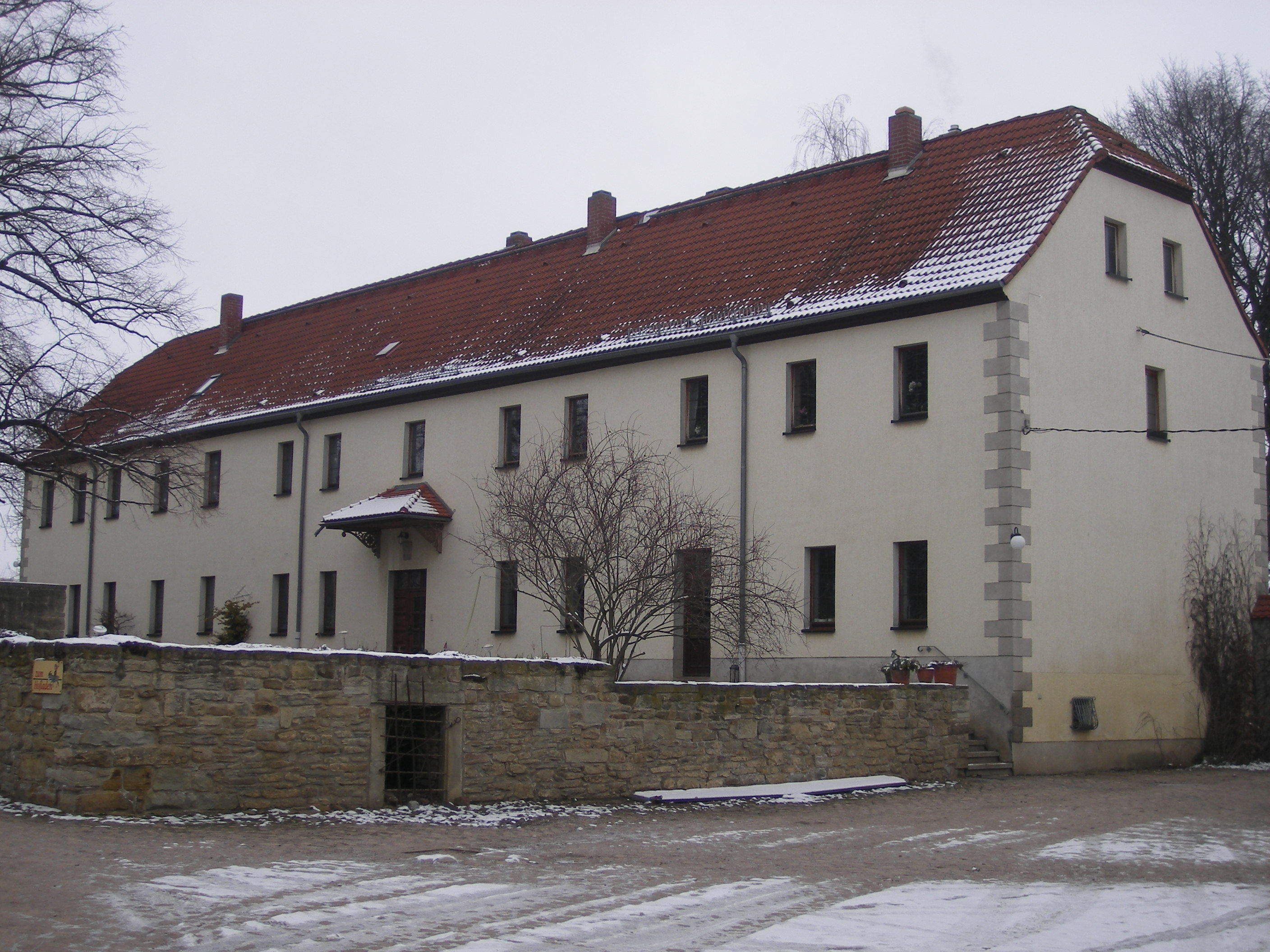 Estate in Schwanditz near Altenburg/Thuringia (Germany)